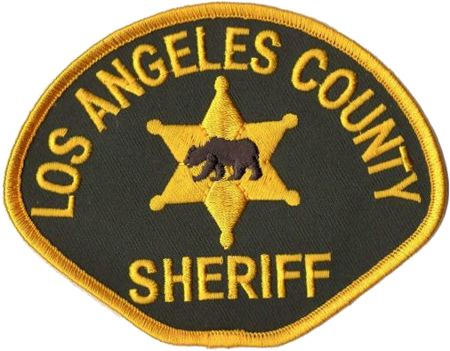 Patch of the Los Angeles County Sheriff's Department (LASD), worn on the sleeves of LASD uniforms.